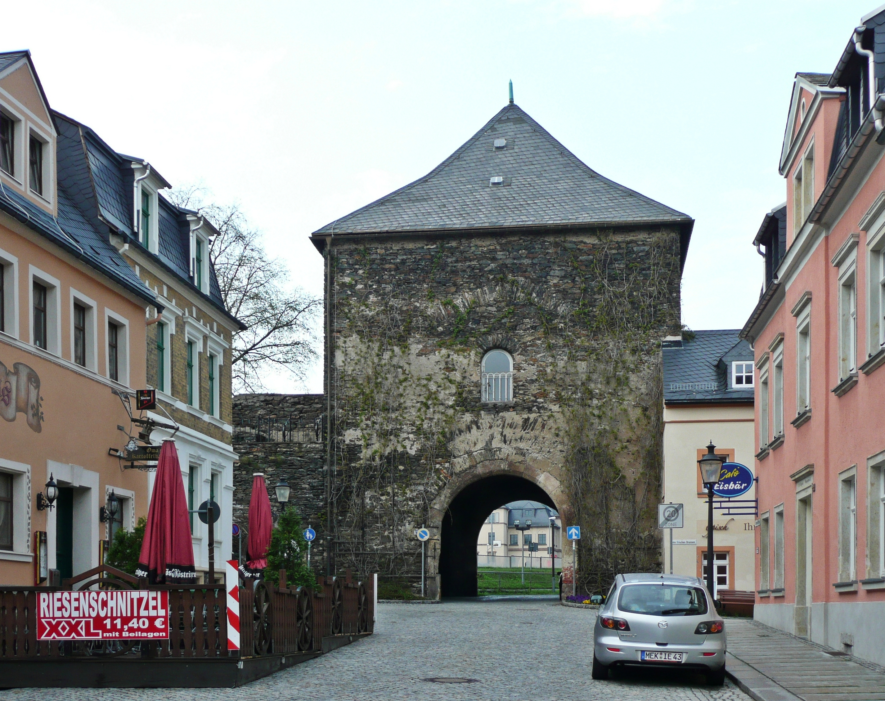 Marienberg: the Zschopauer Tor, a city gate (built 1541-65) and part of the former city wall.